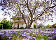 Hebrew meaning “house of God.” Earliest permanent building on the Avondale Estate in Cooranbong, New South Wales, Australia. Opened April 28, 1897 by Seventh-day Adventist Church pioneers Stephen Haskell and Ellen White. Restored with Avondale College Foundation and New South Wales Heritage Council funding. Reopened October 21, 1992 by The Honourable Bob Brown, MP, Member for Charlton.